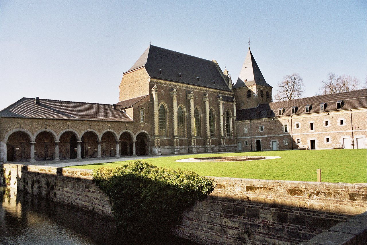 Alden Biesen Castle - chapel